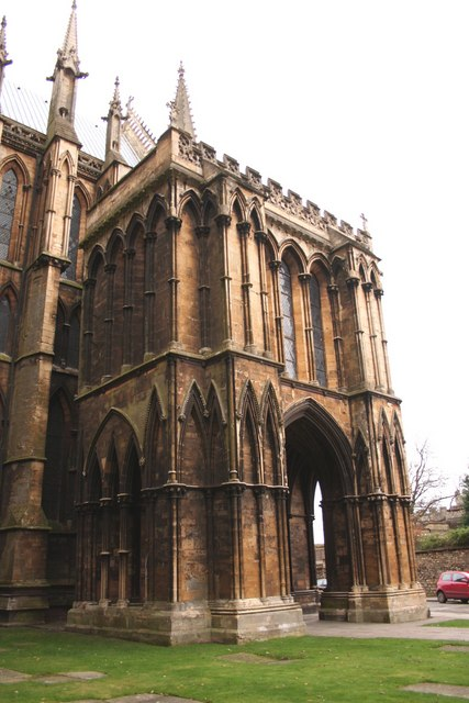 Galilee Porch. Originally a grand entrance porch for the Bishop from the Bishop's Palace 495046 to St.Mary's Cathedral, the 13th century Galilee porch is two storeys high. The upper storey was the court of the Dean and Chapter but is now used as the Muniment Room. A beautiful piece of Early English architecture c1250.